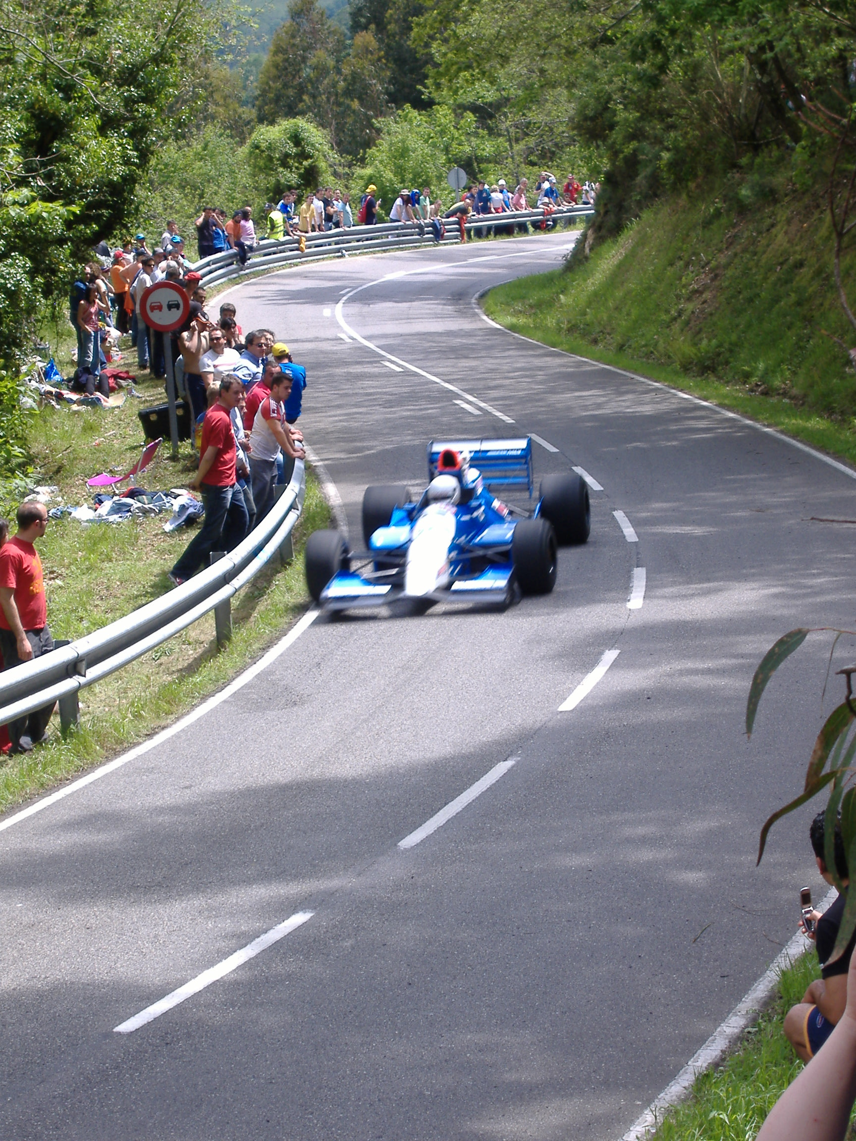 Subida al Fito, Hillclimb European Championship